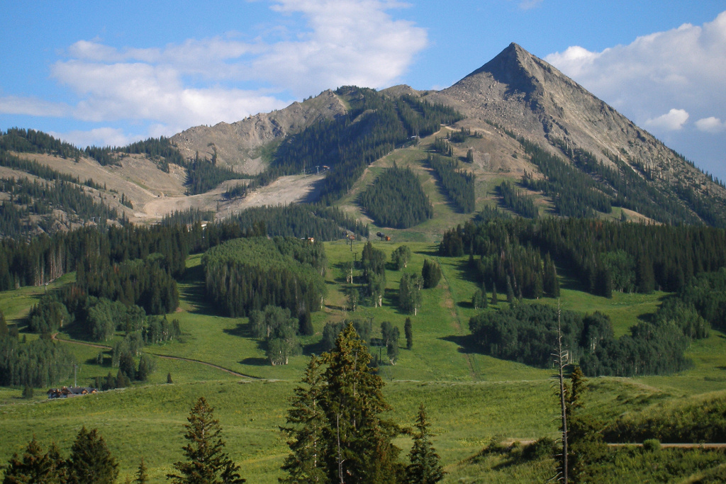 Crested Butte- a mountain beside the town of Crested Butte, Colorado, USA